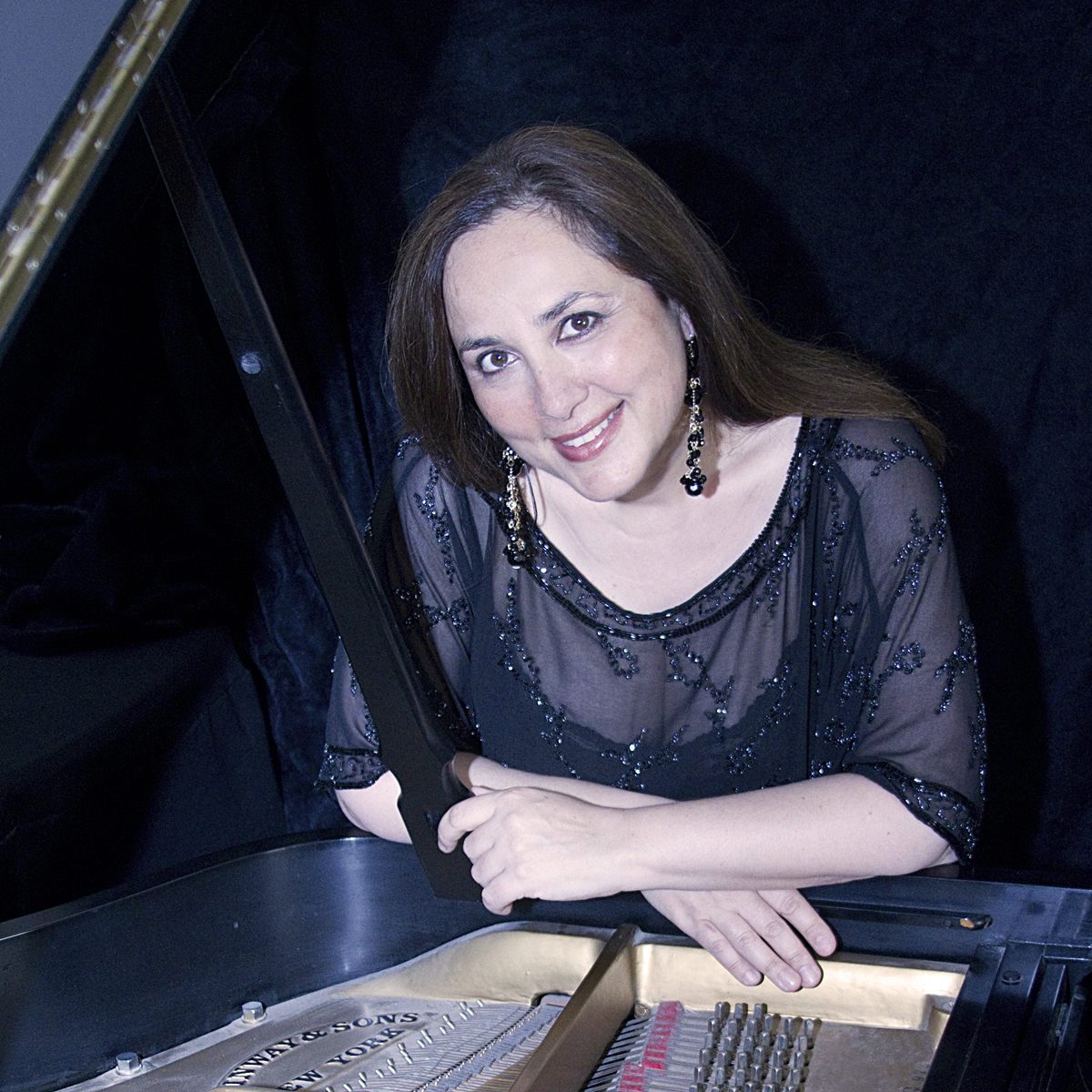 Tamriko Siprashvili performed a benefit concert for the Pleasanton Schools.